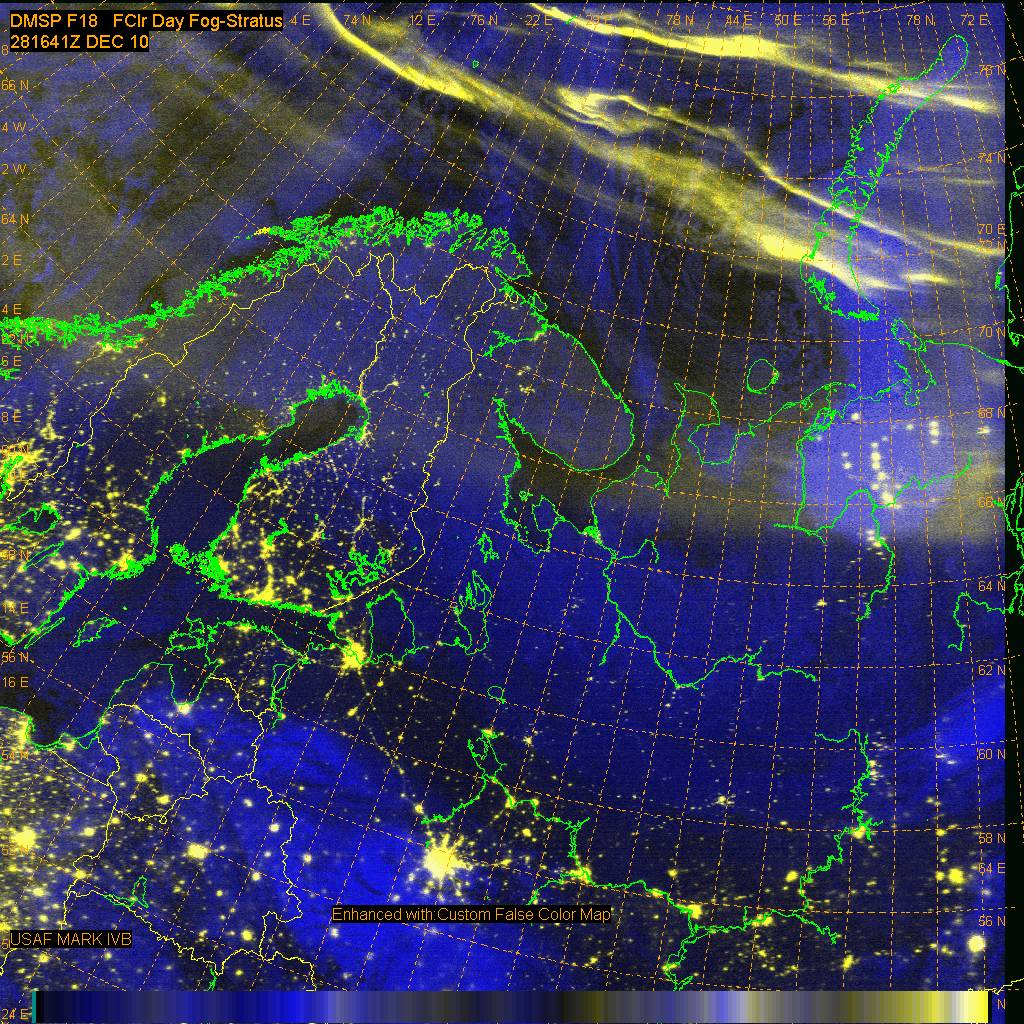 Bright auroral bands circling north of Scandinavia as visualized by combined visual and infrared nighttime observations of DMSP satellites F17 and F18